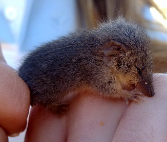 Southern ningaui captured in the Middleback Ranges, South Australia in April 2011